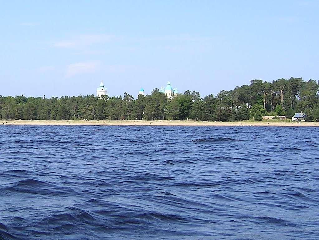 View on the monastery.